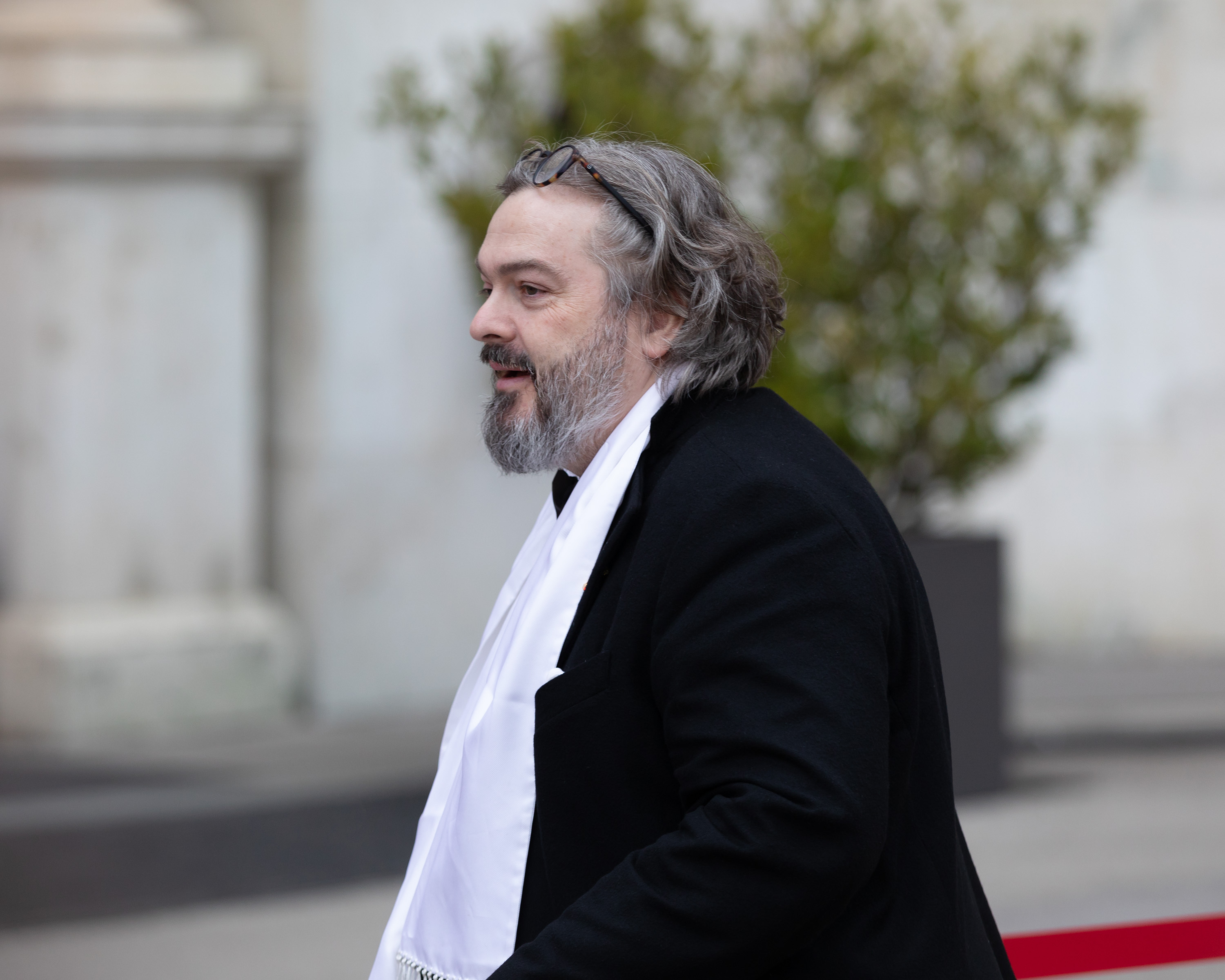 Wolfgang Ritzberger on the red carpet of the Romy TV awards 2018 at Hofburg Palace in Vienna, Austria.